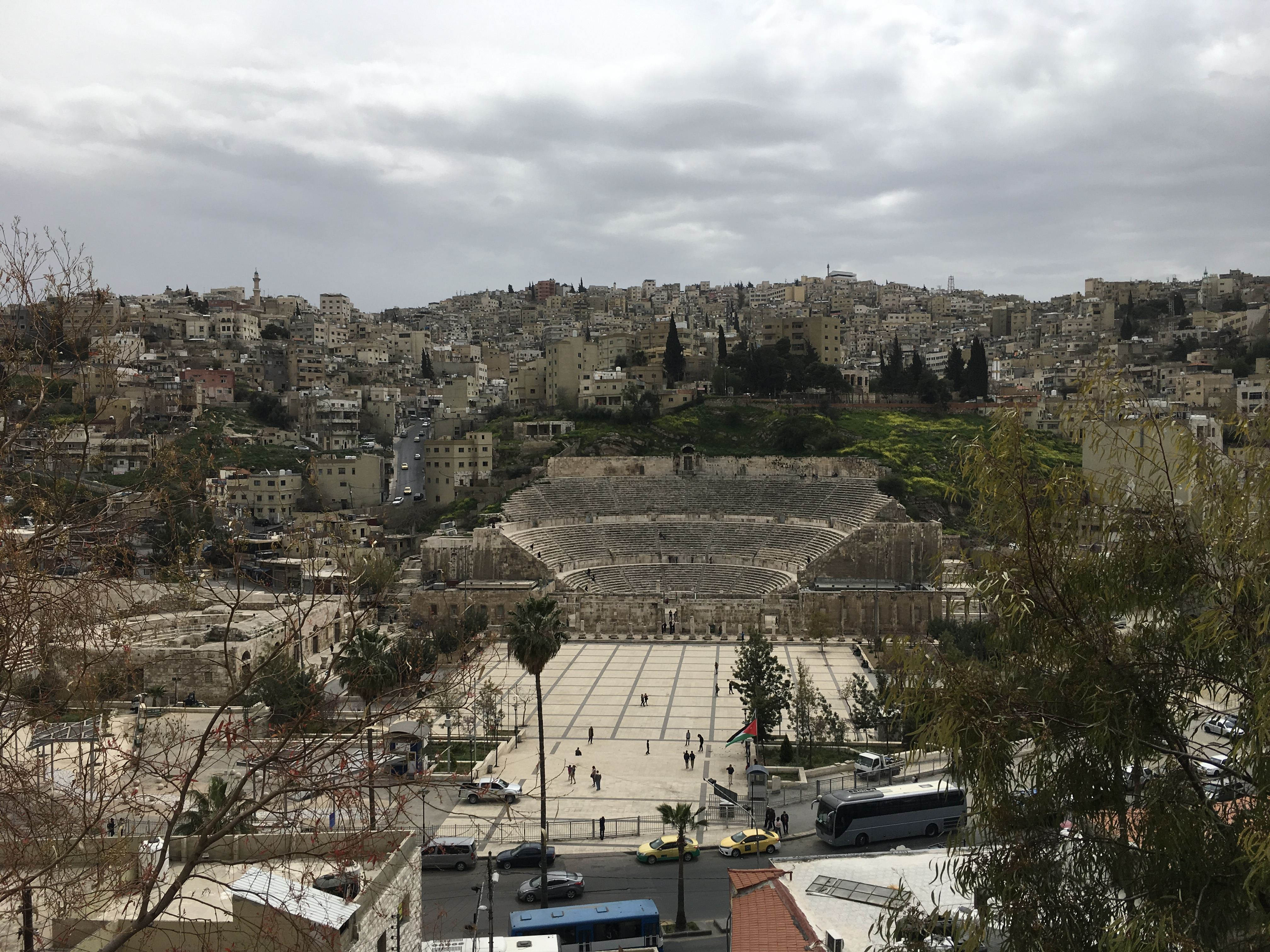 Amman forum, theatre and odeon from Castle hill